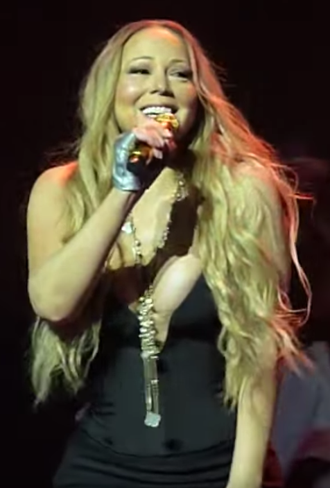 Mariah Carey performing "Heartbreaker Medley" in Adelaide, Australia, as part of The Elusive Chanteuse Show